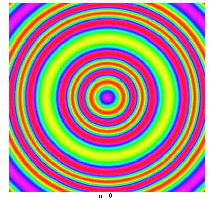 swirl function Maple plot